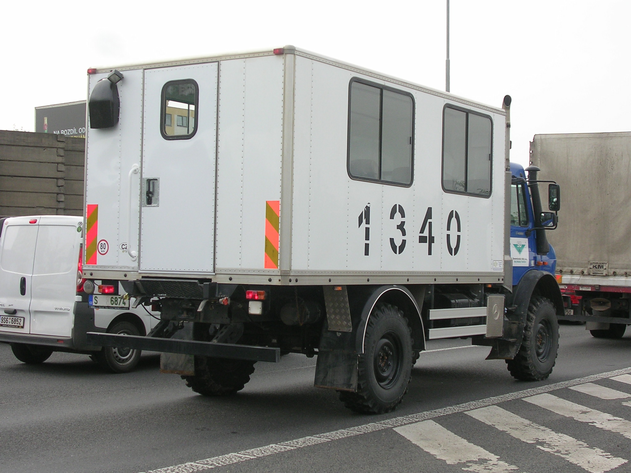 Prague-Spořilov, the Czech Republic. Jižní Spojka road. A bus of a North Bohemian mining company.